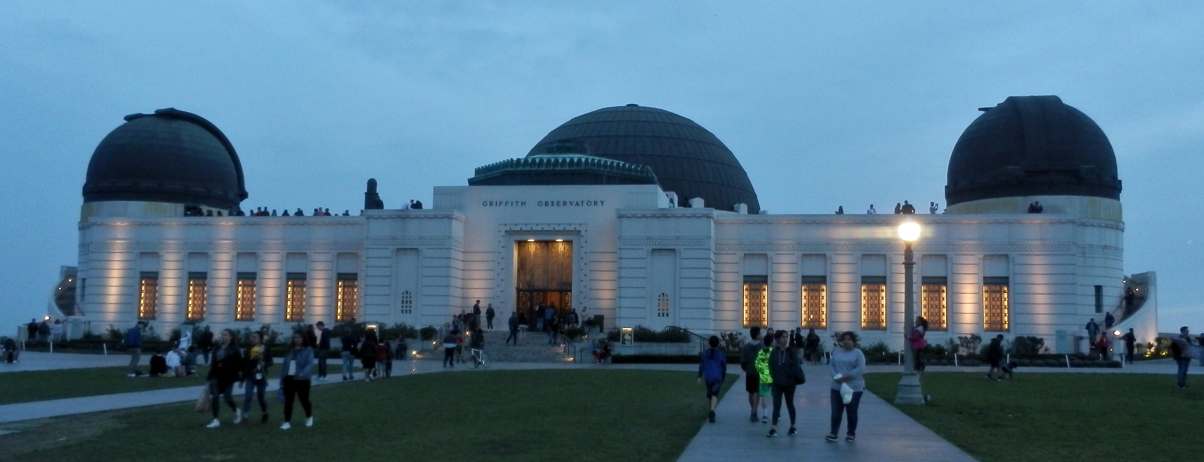 Griffith Observatory